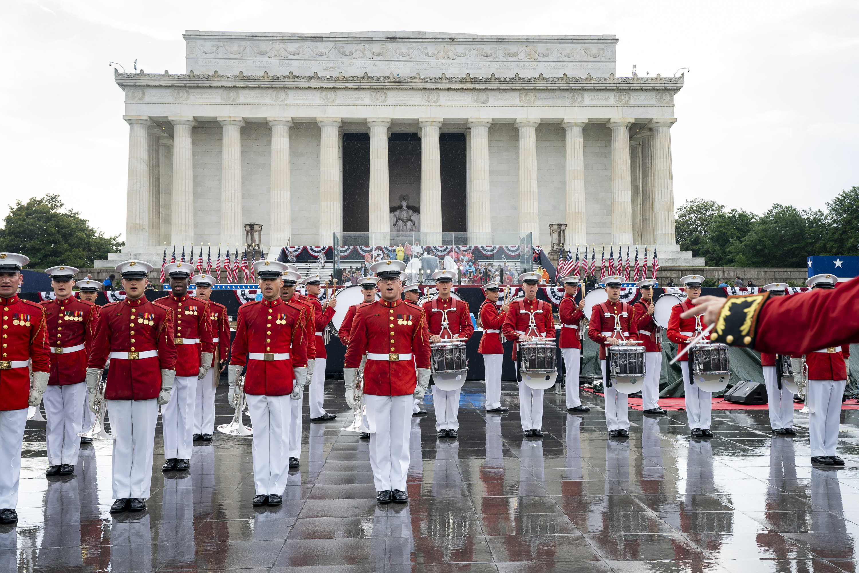 Members of the U.S. Marine Corps Band march in formation and perform at the Salute to America event Thursday, July 4, 2019, at the Lincoln Memorial in Washington, D.C. (Official White House Photo by Tia Dufour)